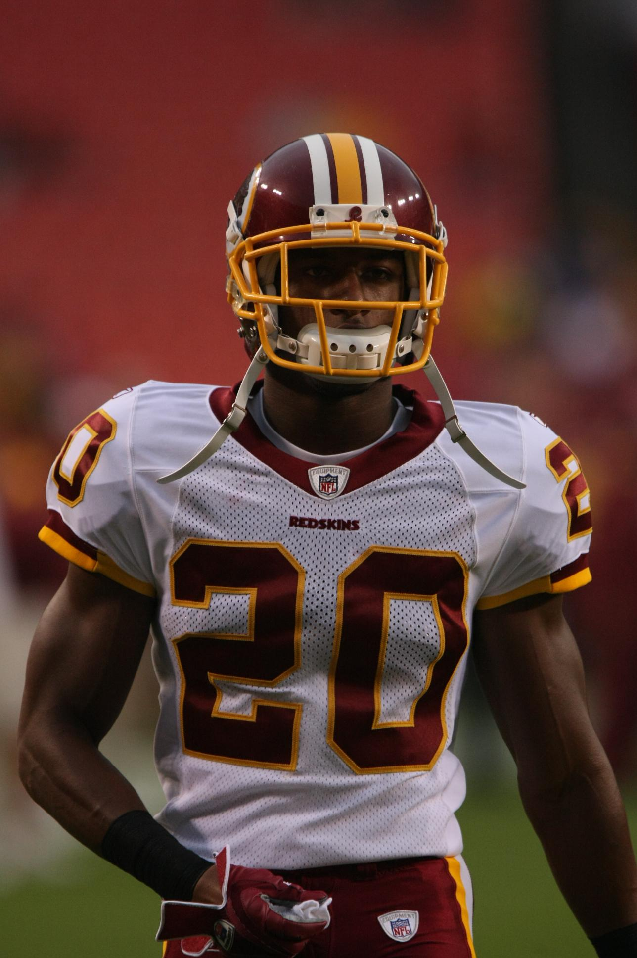 Washington Redskins cornerback Justin Tryon during a preseason game against the New England Patriots on August 28, 2009.